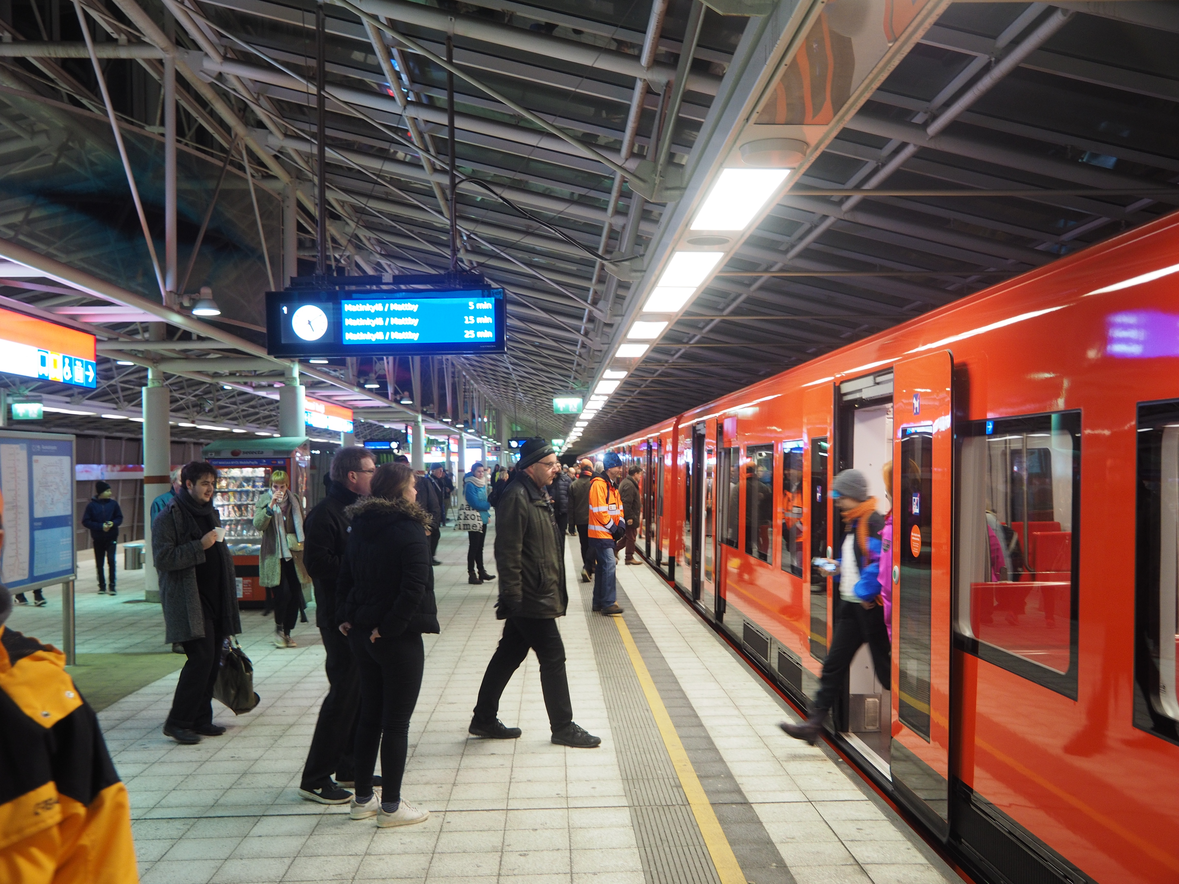 The first ever Länsimetro train from Vuosaari, Helsinki to Matinkylä, Espoo, about to depart from Vuosaari metro station at about 05:05 AM. Passengers are boarding the train, eager to become Länsimetro's first passengers.